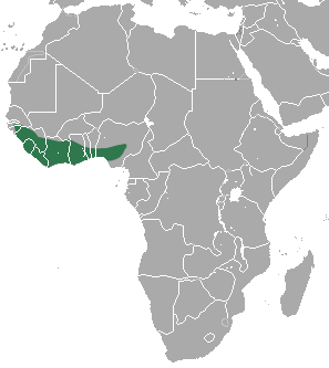 Buettikofer's Epauletted Fruit Bat (Epomops buettikoferi) range